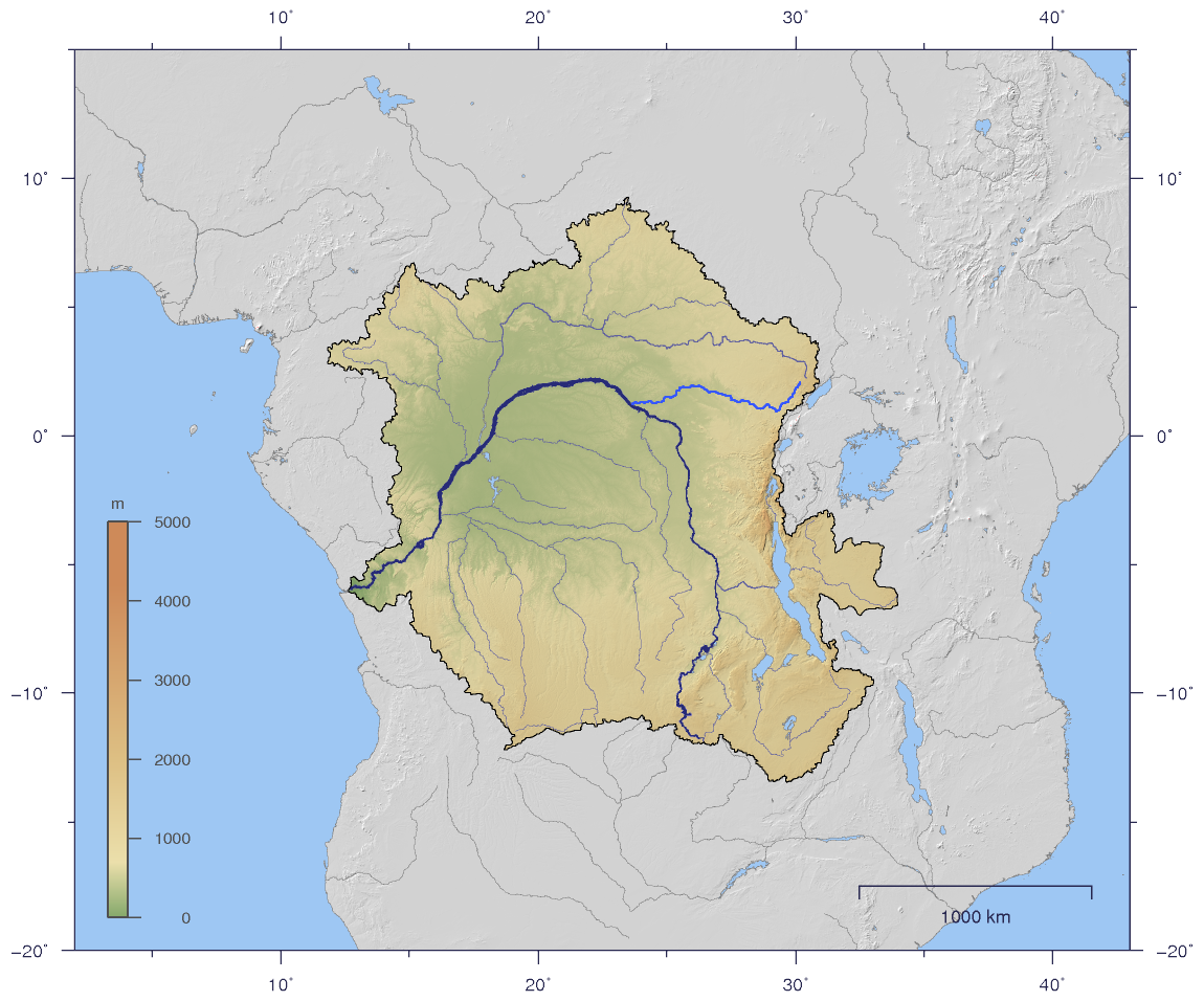 Map of courses of the Congo River (dark blue), and its tributary the Aruwimi River (medium blue) on the Congo's northeastern right bank. With topographic shading of the Congo Basin.